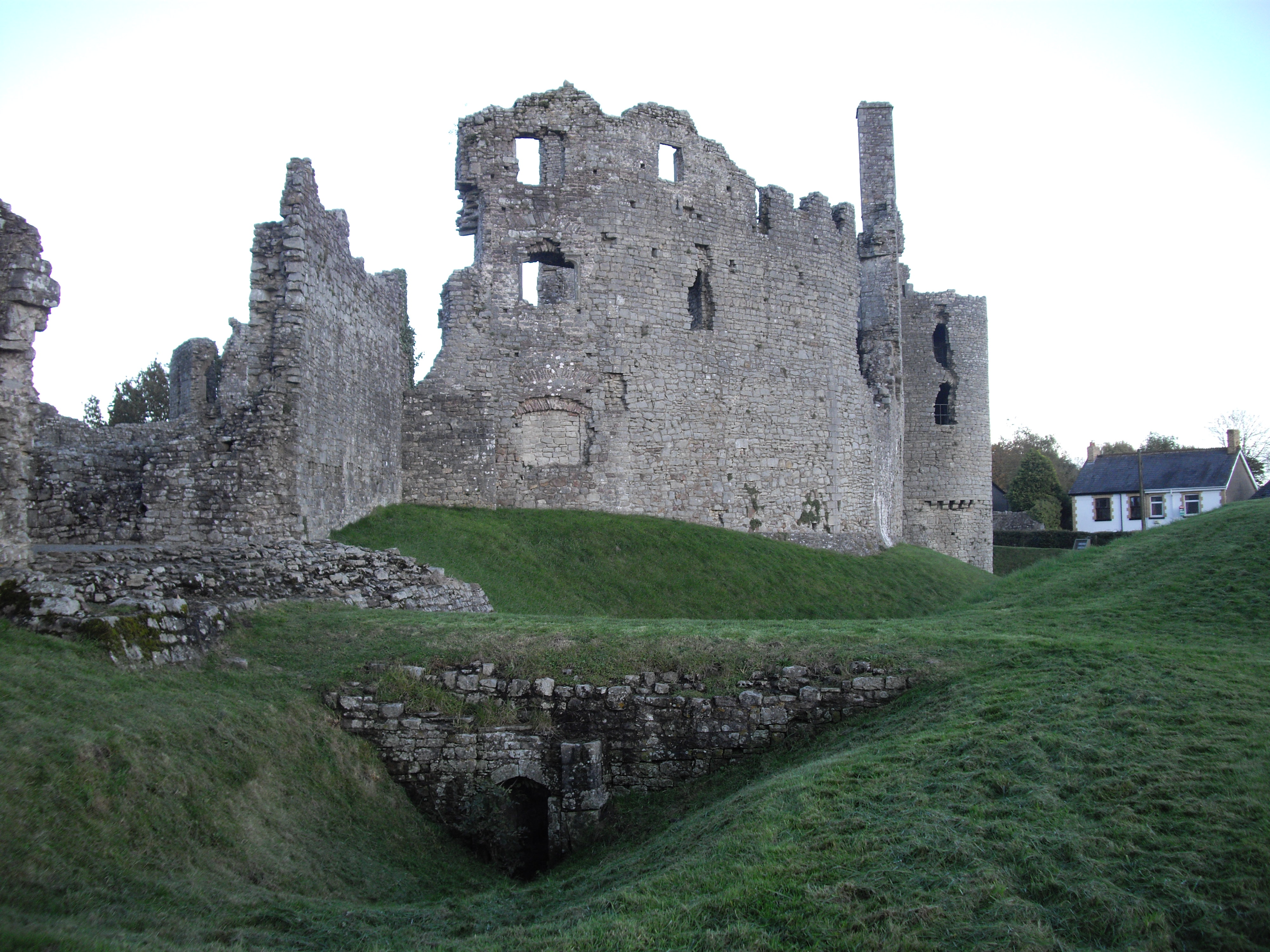 Southern elevation of Coity Castle